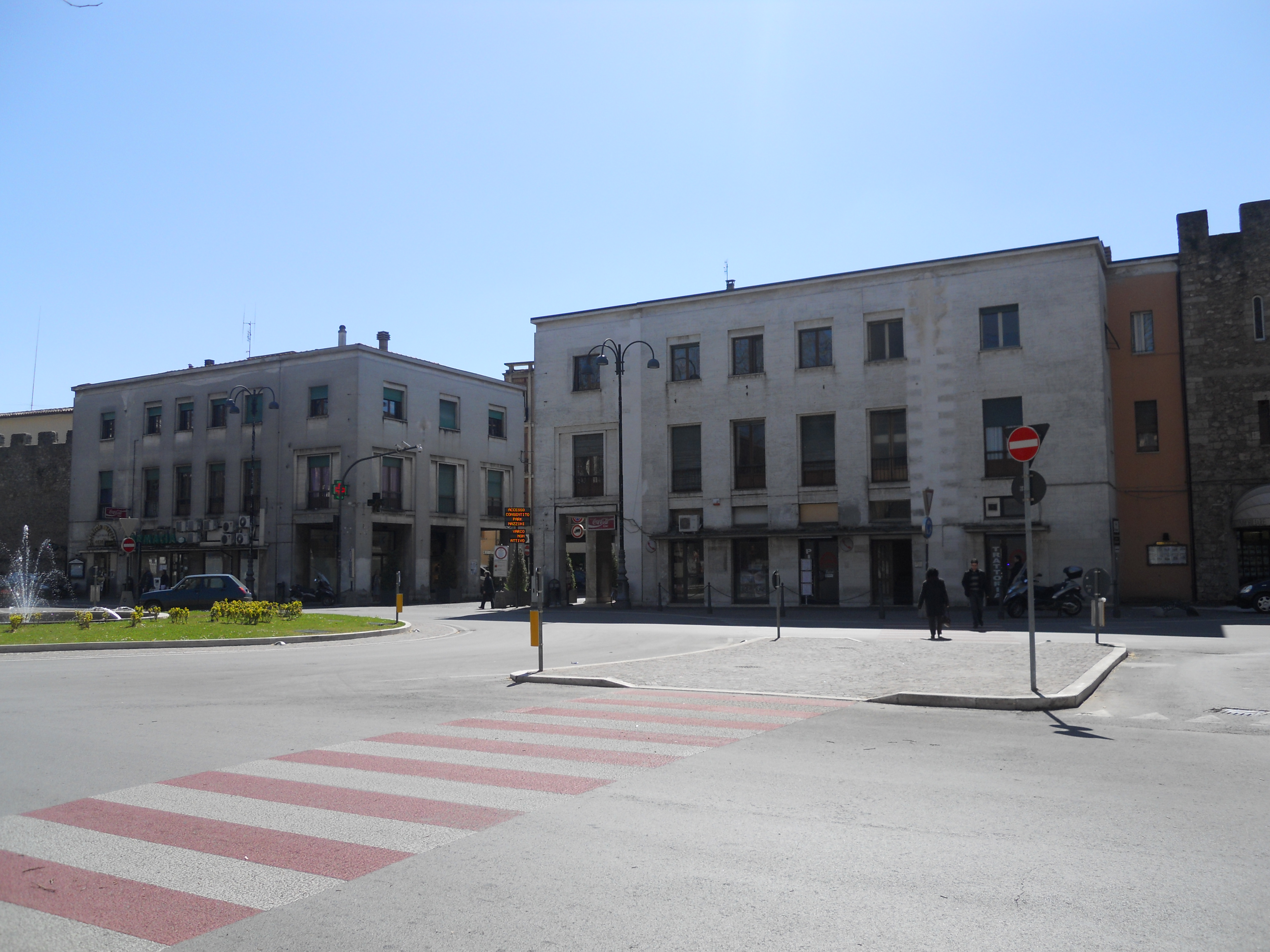 Marconi square with the present Cintia gate - Rieti, Italy